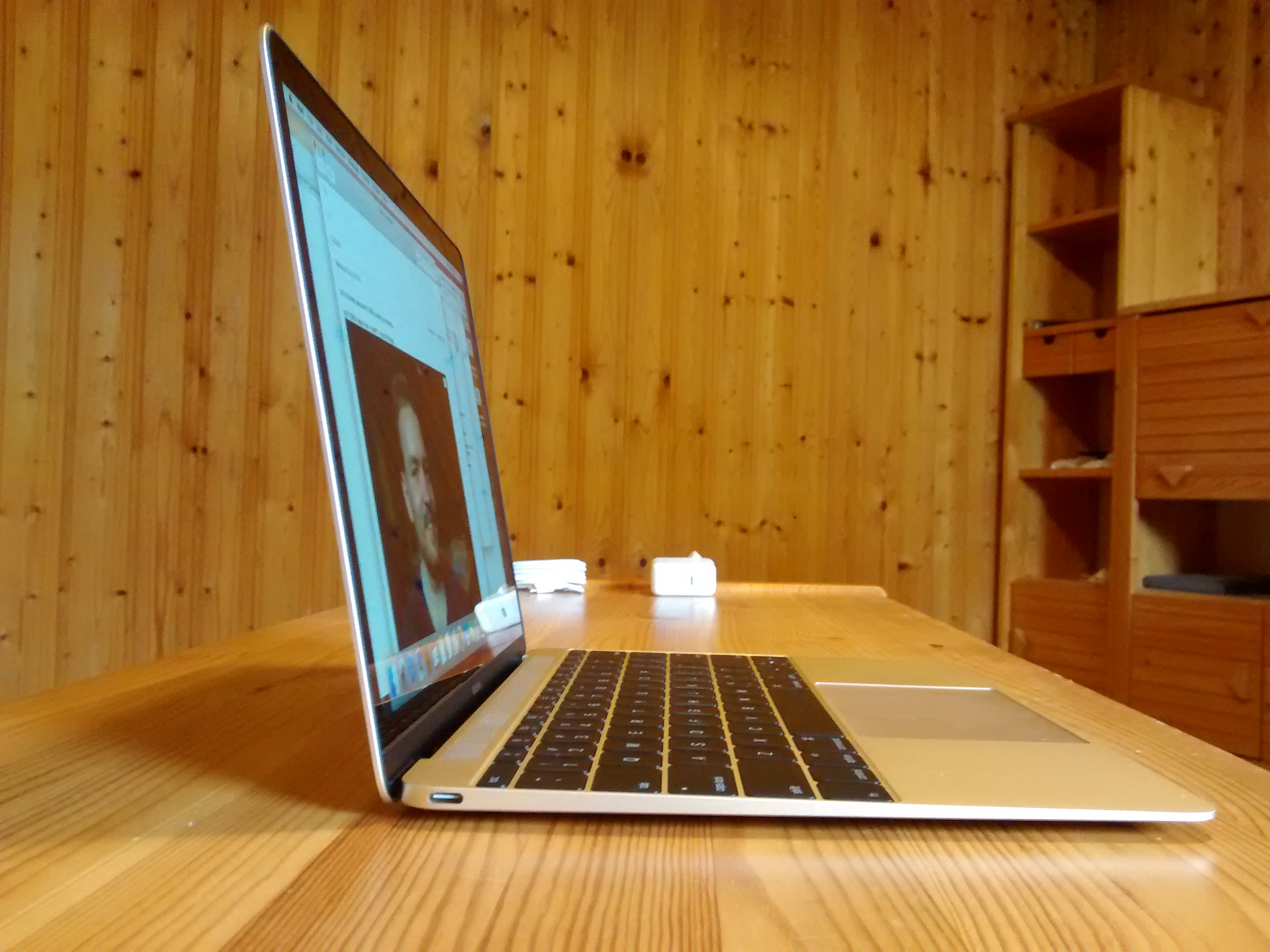 First Testing with osXMail, and some websites